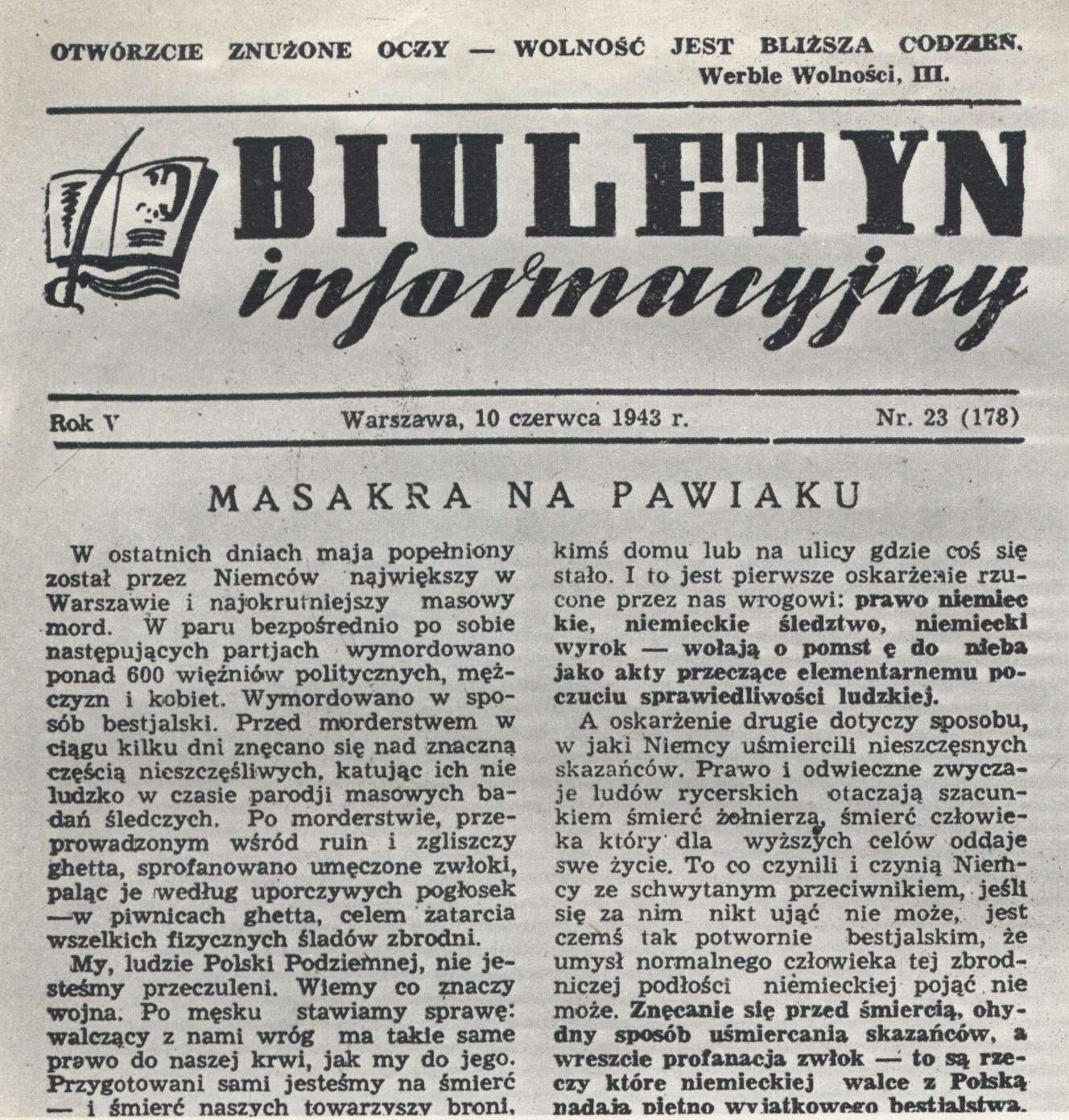 Front page of Polish underground magazine, Biuletyn Informacyjny, concerning the mass execution of 530 inmates of Pawiak prison. The victims were murdered in the ruins of Warsaw Ghetto on 29th May 1943.